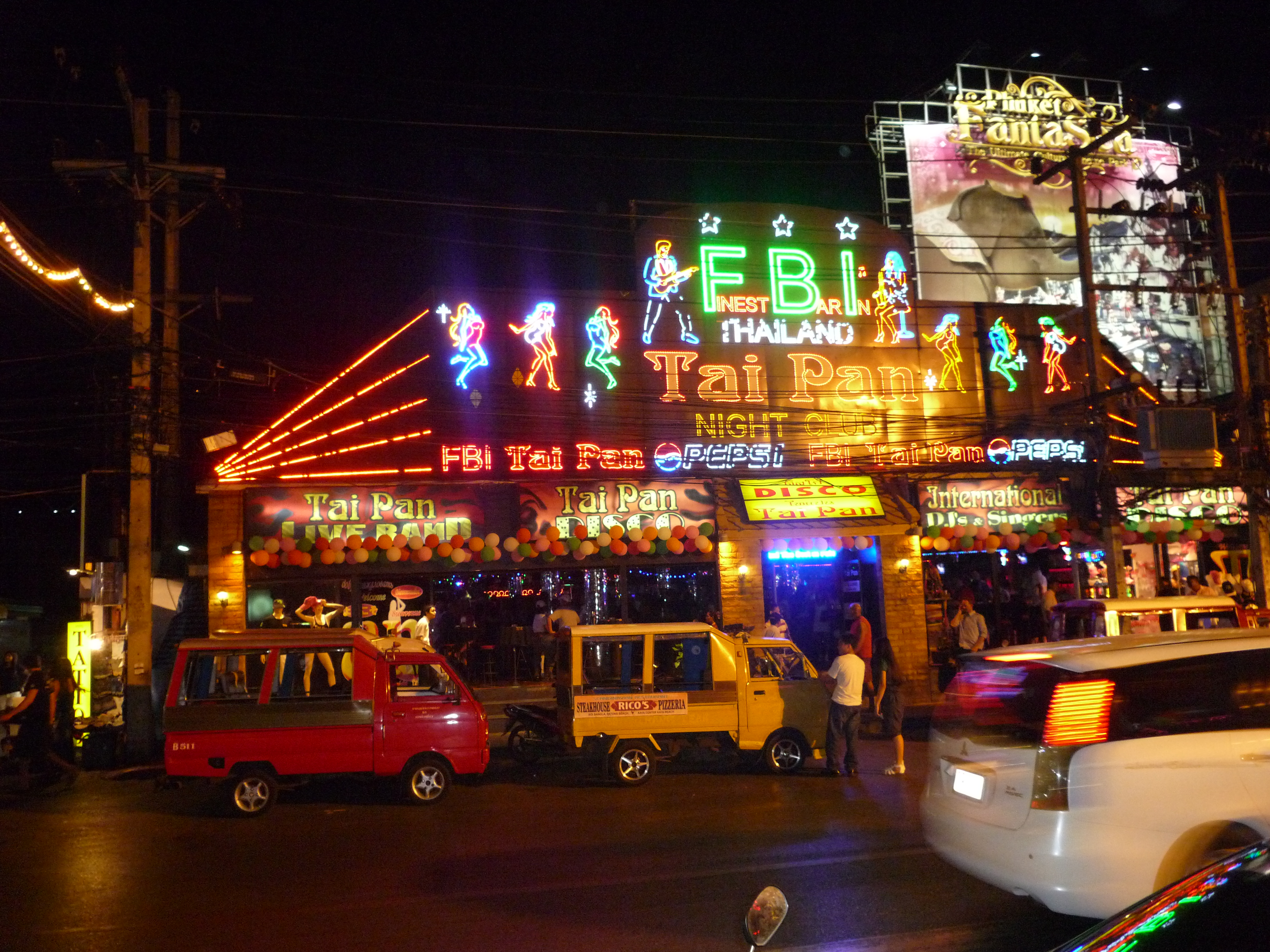 Patong, Phuket Province, Thailand